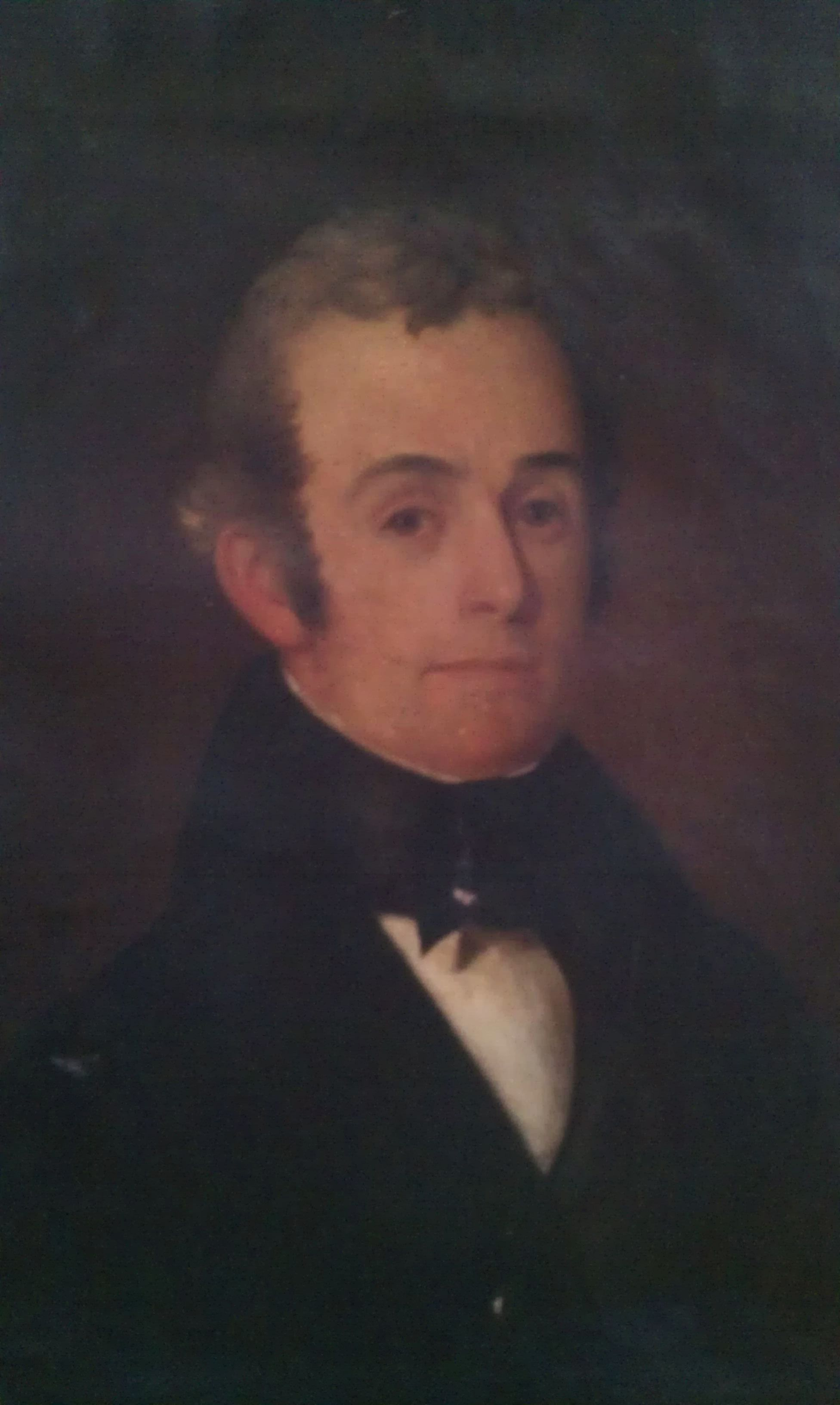 Speaker of New Brunswick House of Assembly